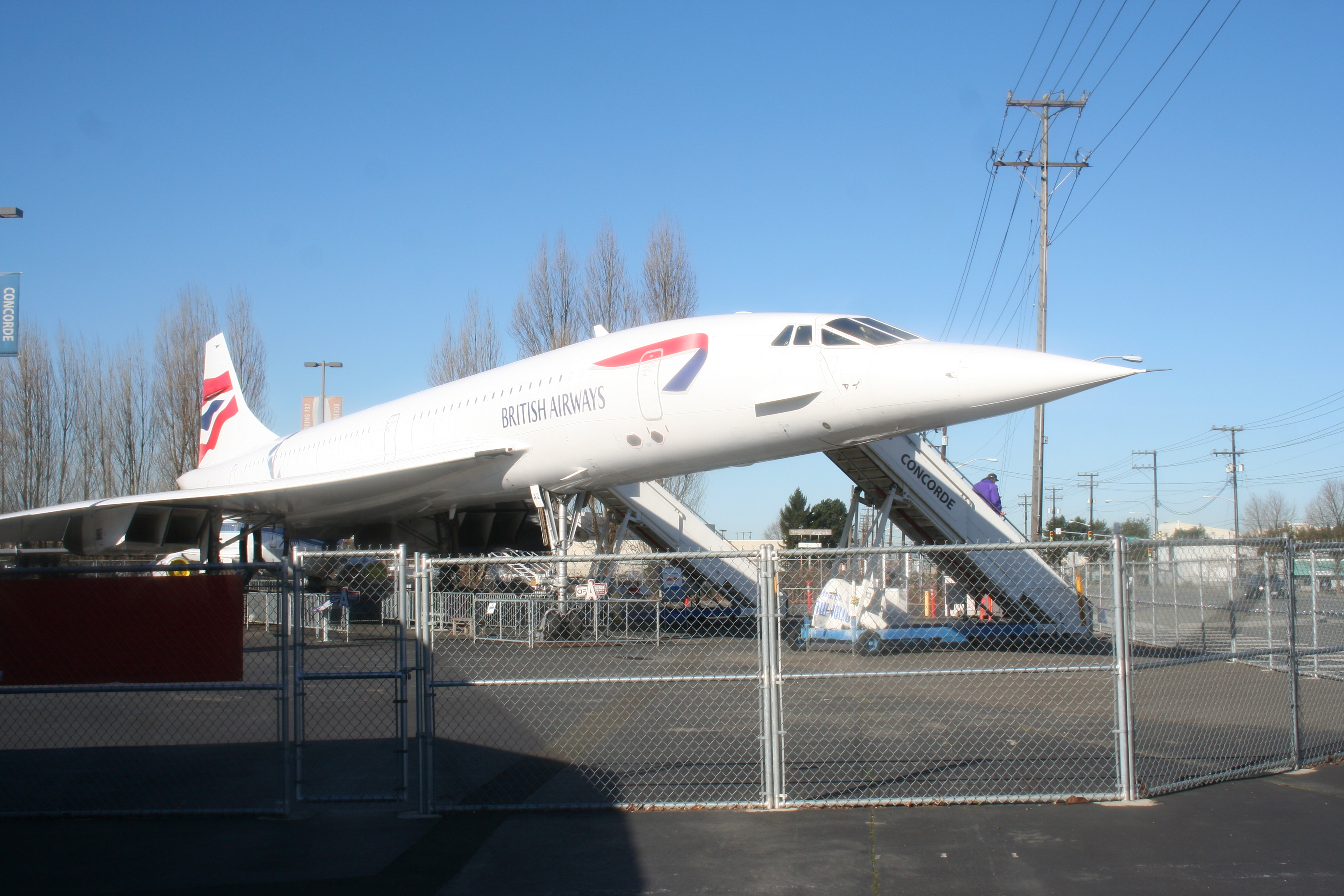 Concorde G-BOAG at Museum of Flight, Seattle, Washington, USA